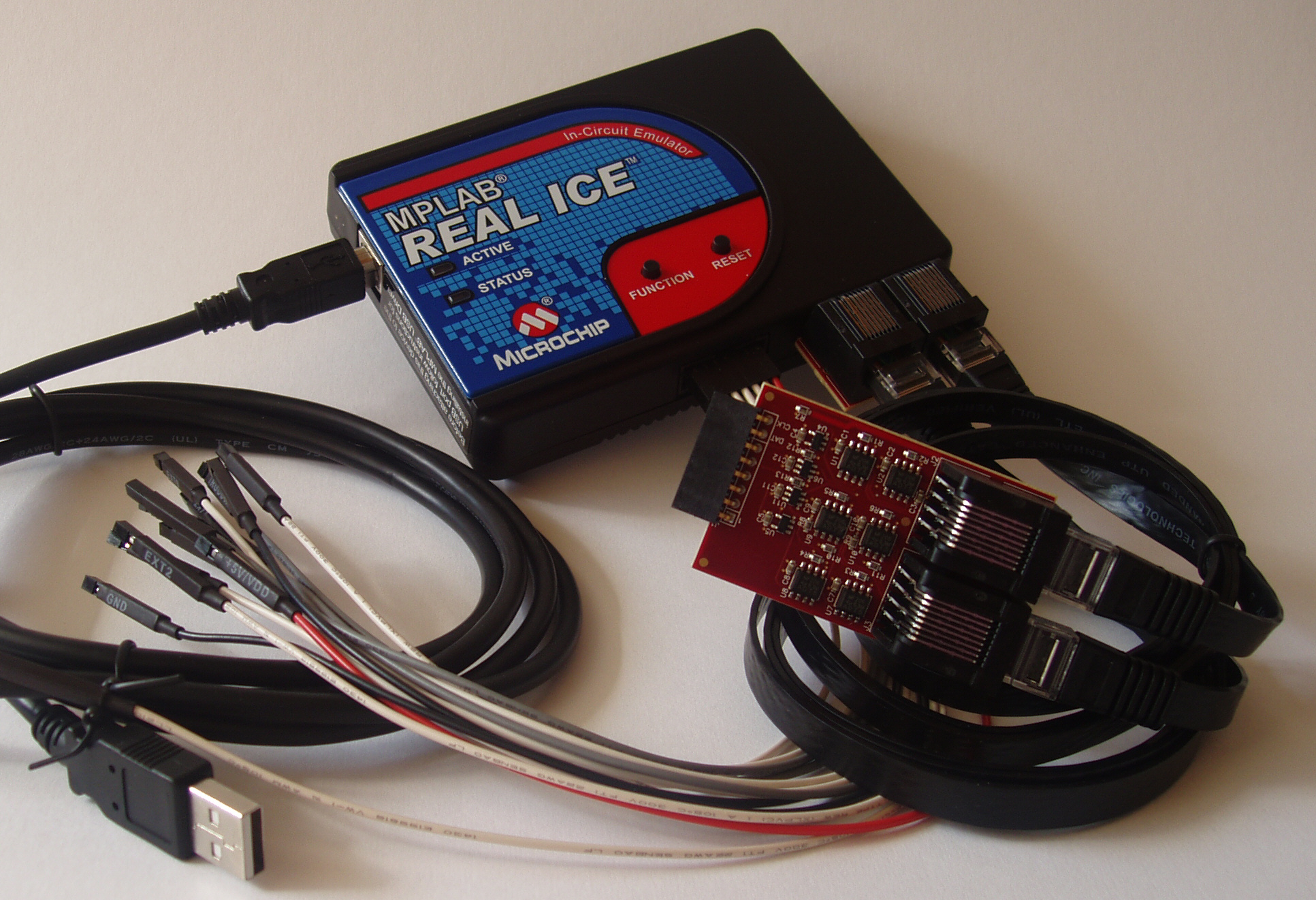 Microchip Real-ICE (DV164005) with Performance Pak (AC244002) and trace-header (Emulator, Debugger and Programmer as well)